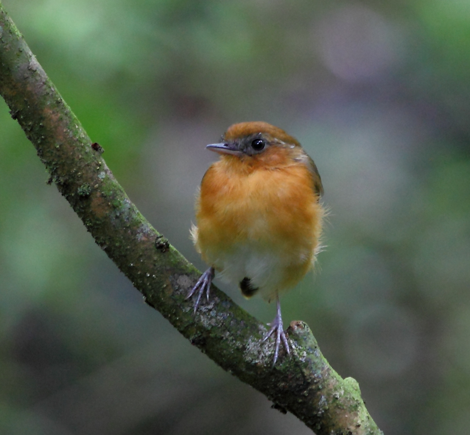 Ceara gnateater at Guraramiranga - Ceará - Brazil